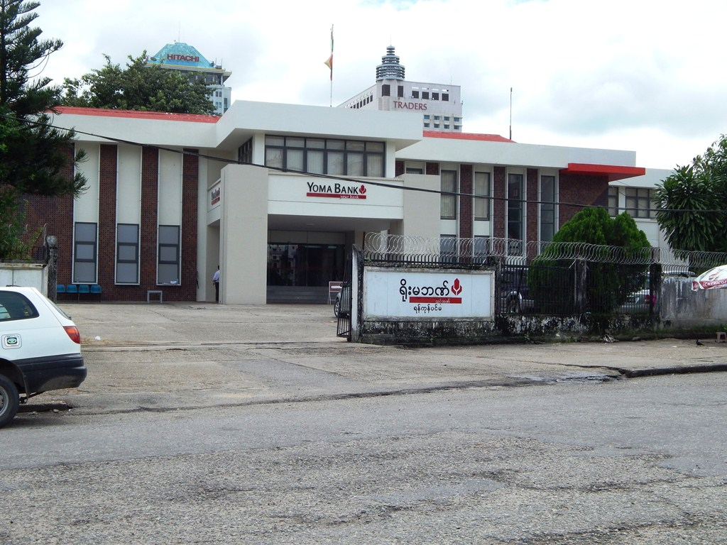 Yoma Bank, Yangon, Burma